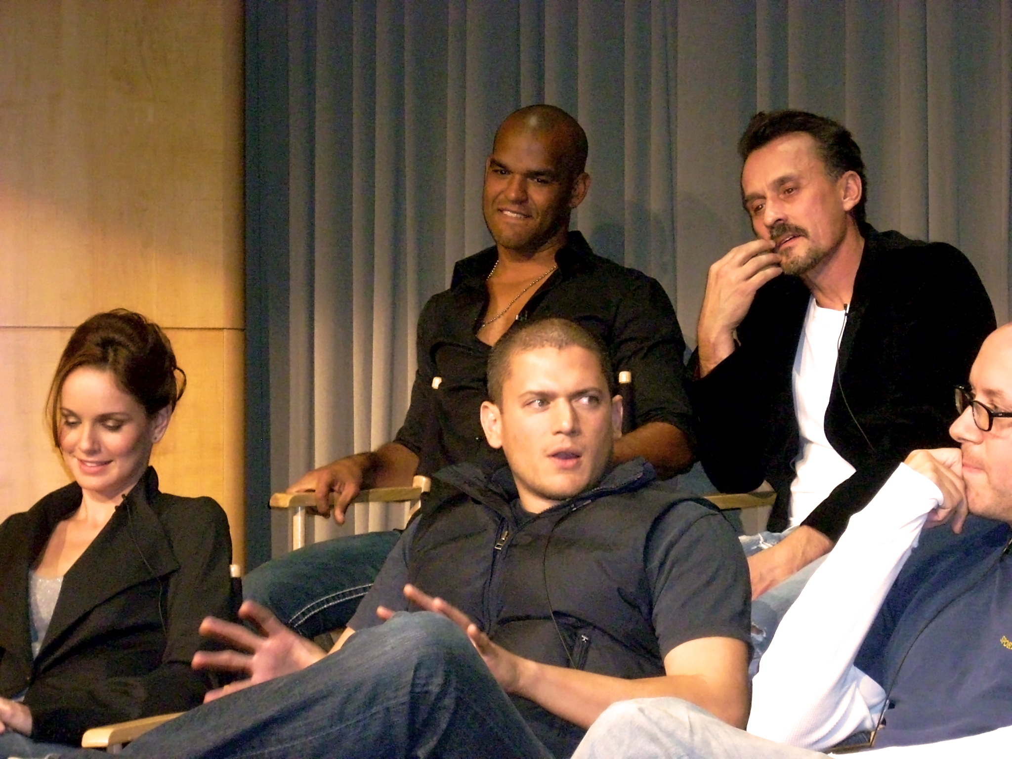 Amaury Nolasco, Robert Knepper, Sarah Wayne Callies, Wentworth Miller and Matt Olmstead at Paley Center for Media, Beverly Hills, California - Oct. 21, 2008